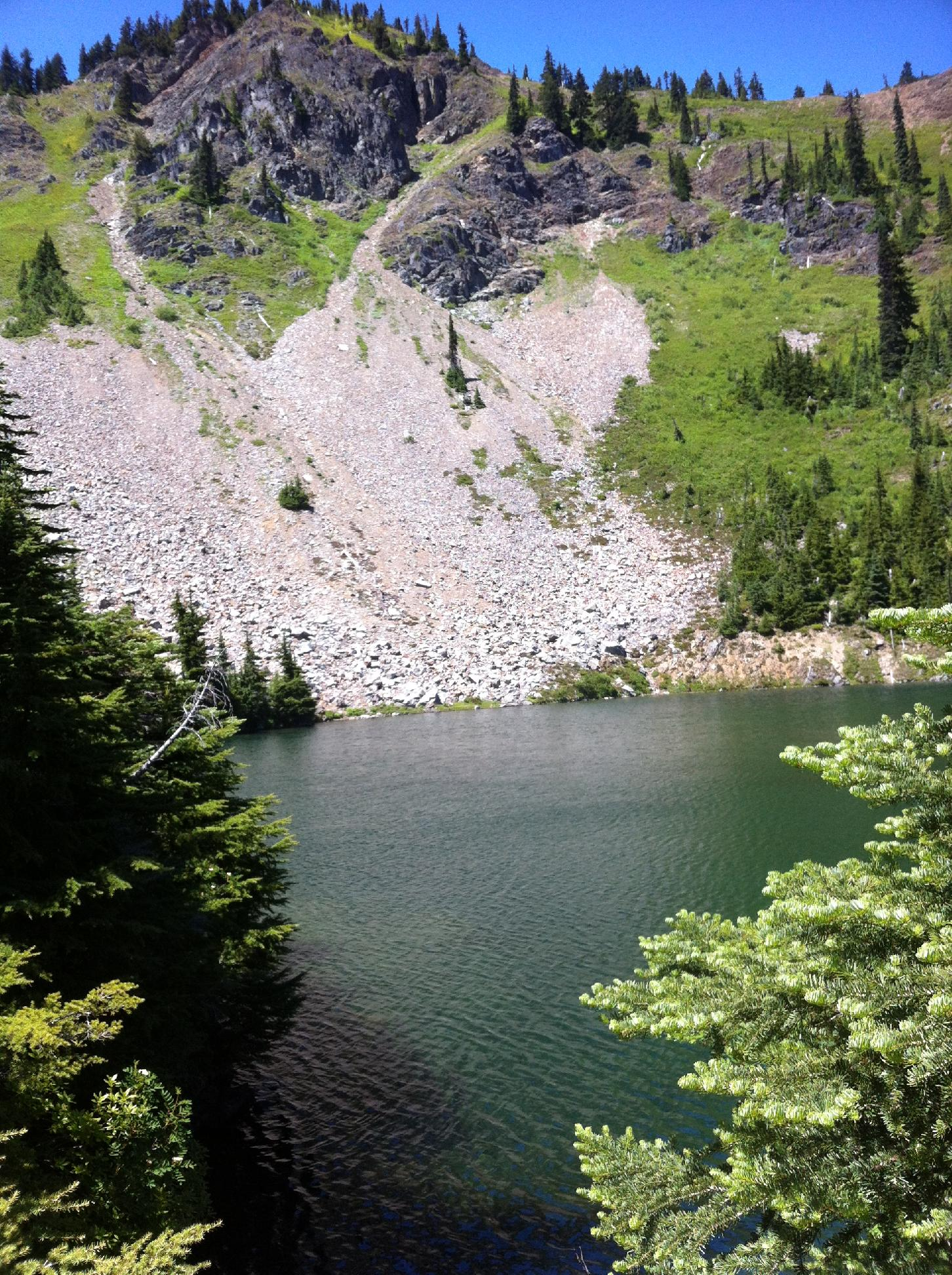 Lake Margaret looking toward Mount Margaret in Kittitas County, Washington State.